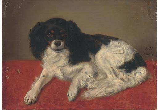 signed with initials and dated 'L.H./1869' (centre right) oil on canvas, unframed. 12½ x 17½ in. (31.8 x 44.4 cm.) Sold at Christie's Sale 9971 Sporting Art and Dogs, 18 November 2004 in London, South Kensington.